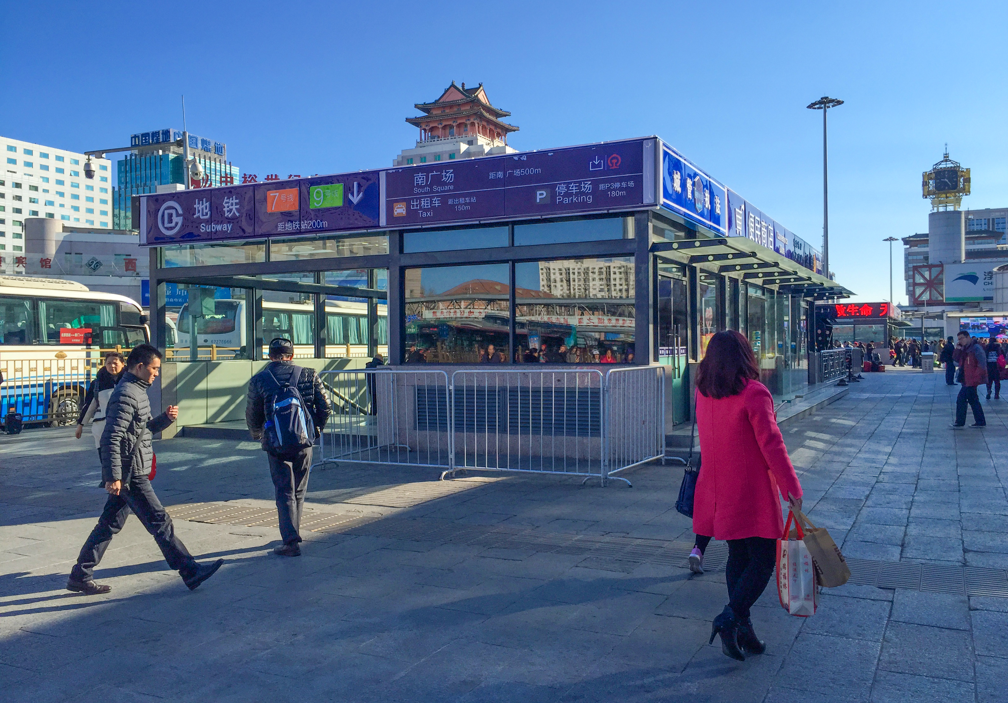 Nominally to metro.